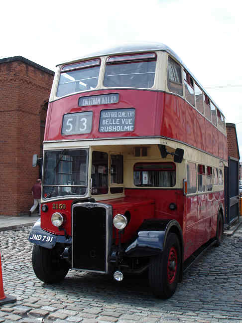 A Crossley DD42 double deck bus from 1949. Now kept at the Manchester Transport Museum. Photo taken by myself in Sept 2006